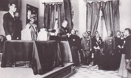 Inauguration Ceremony of Chief Executive of Manchukuo